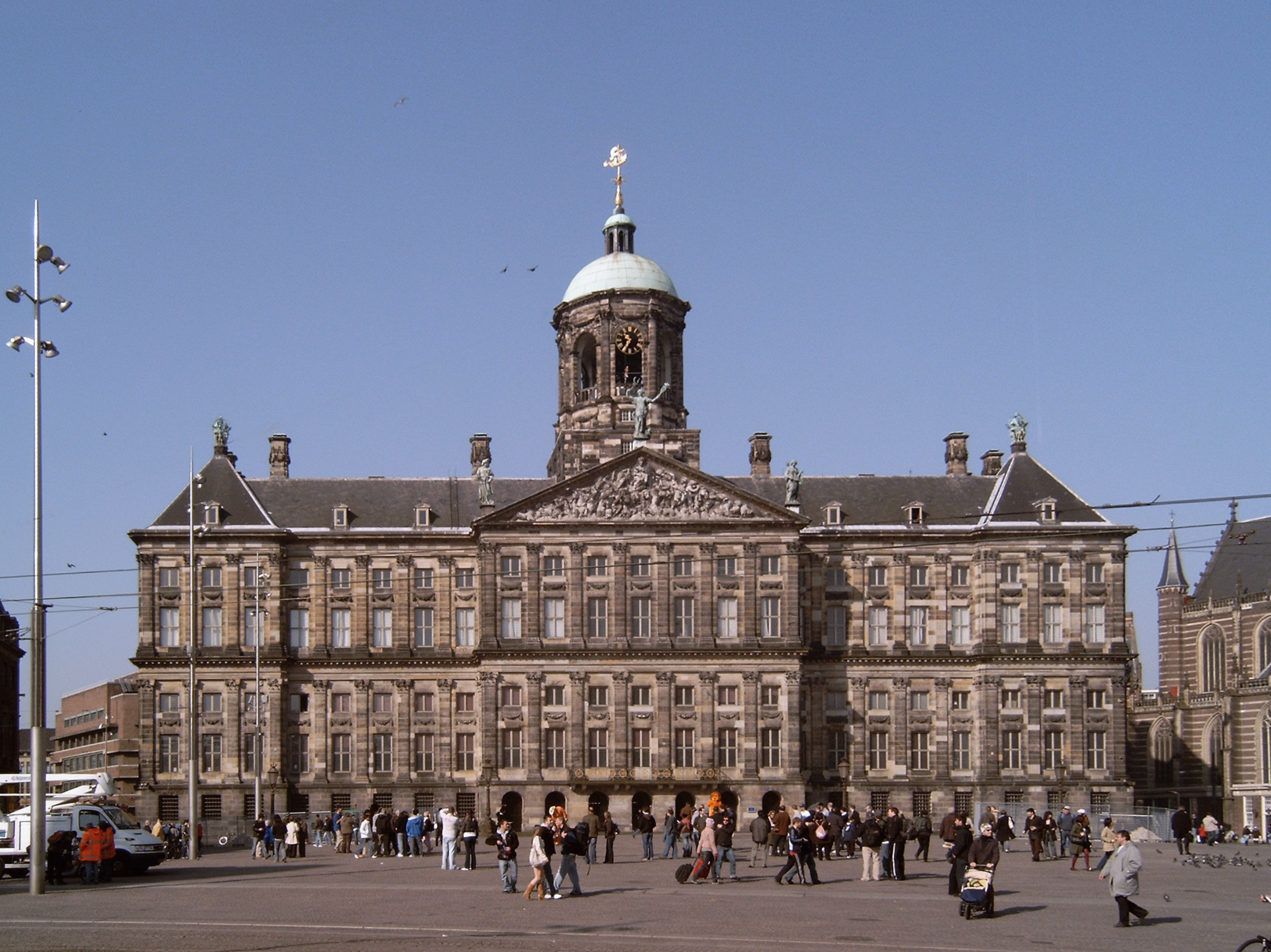 Amsterdam, Paleis op de Dam